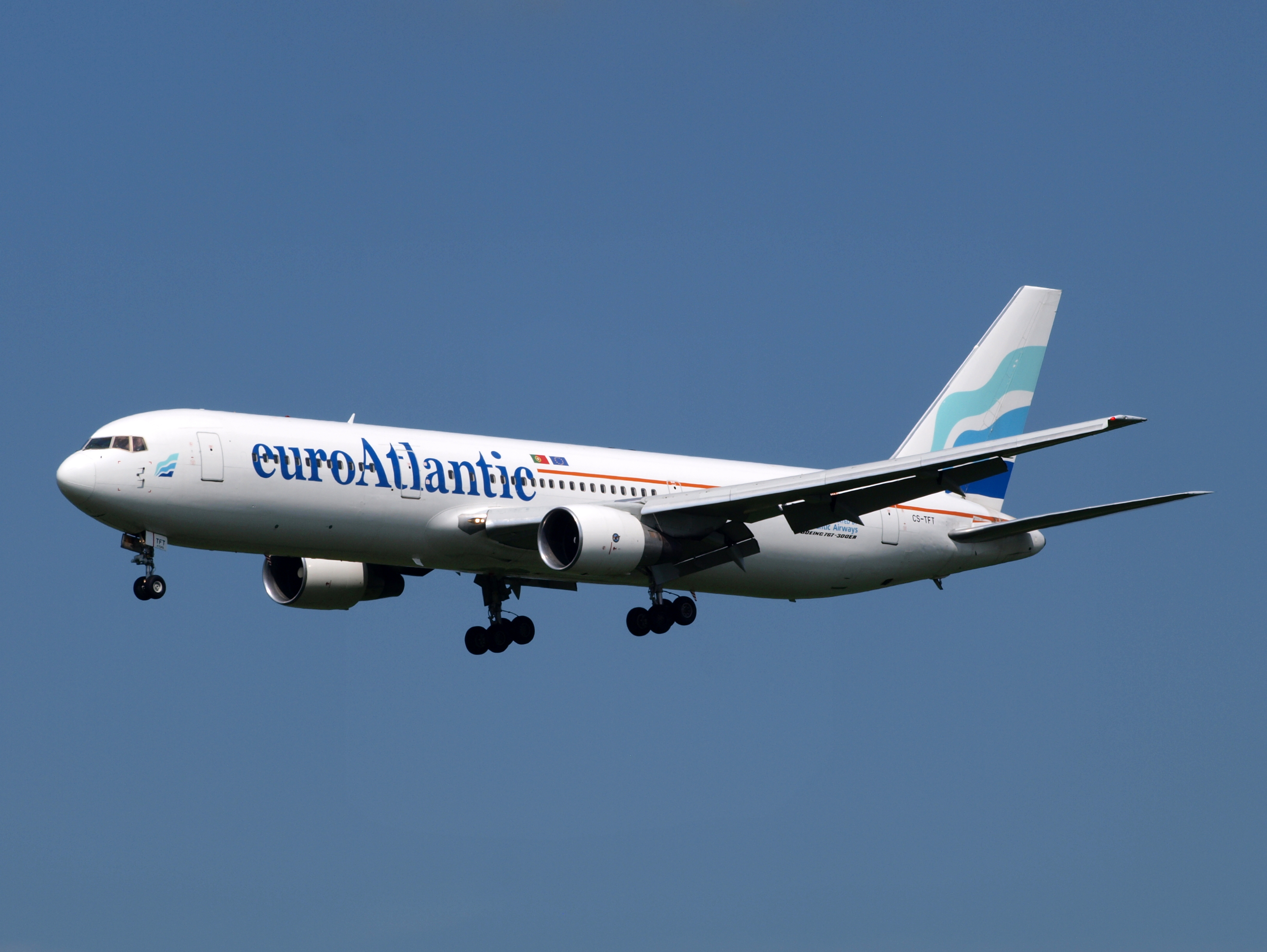 Photographed at Amsterdam airport Schiphol, the Netherlands.